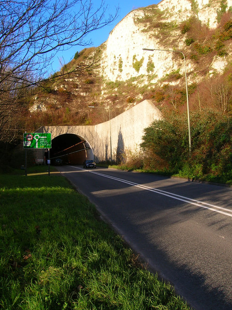 Southern Entrance, Cuilfail Tunnel Opened in 1980 to prevent the A26 clogging up the South Street area of Lewes. The southern part was located in an abandoned chalk quarry much of whose material was used to provide embankments for the Ouse.